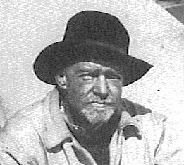 Sir Ernest Shackleton at Ocean Camp, Weddell Sea, 1915 (cropped from larger photograph)